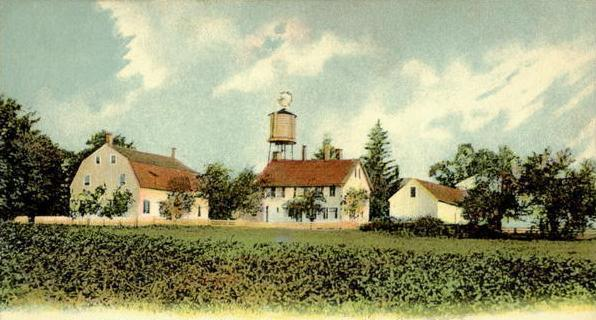 View of Canterbury Shaker Village, East Canterbury, NH; from a 1906 postcard. At left is the meetinghouse, built in 1792.